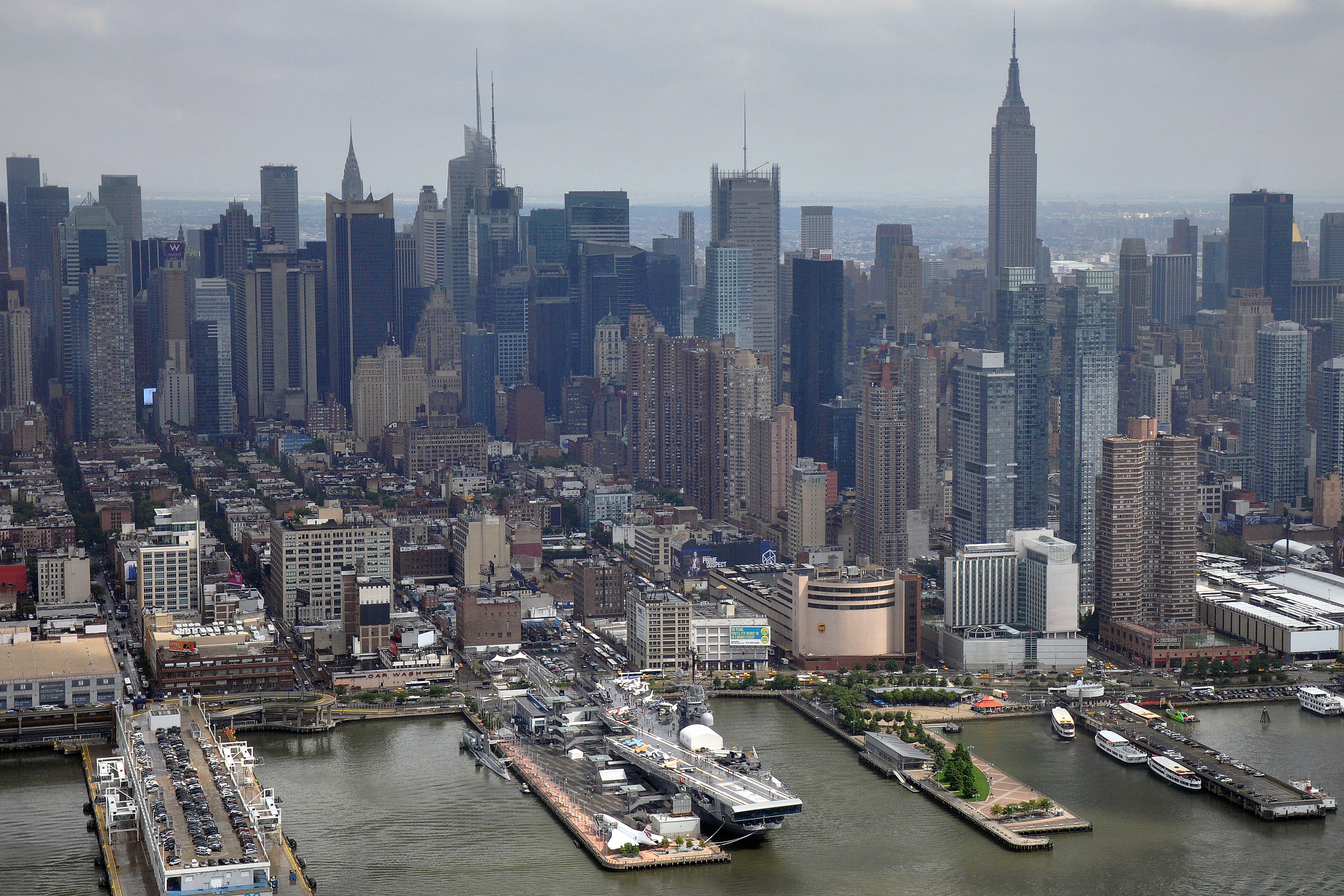 Aereal view of USS Intrepid at pier 86 and Manhattan skyline.